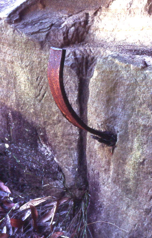 Remains of a bush home, possibly dating back to the Great Depression, when many people lived in the bush, Roseville Chase, New South Wales, Sydney, photo by Sardaka 09:18, 6 November 2007 (UTC)